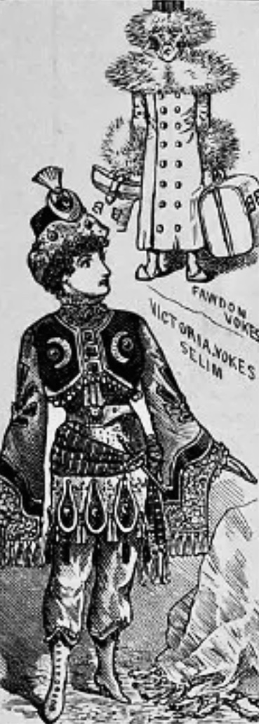 Victoria Vokes as Selim in the 1879 pantomime ‘Bluebeard’